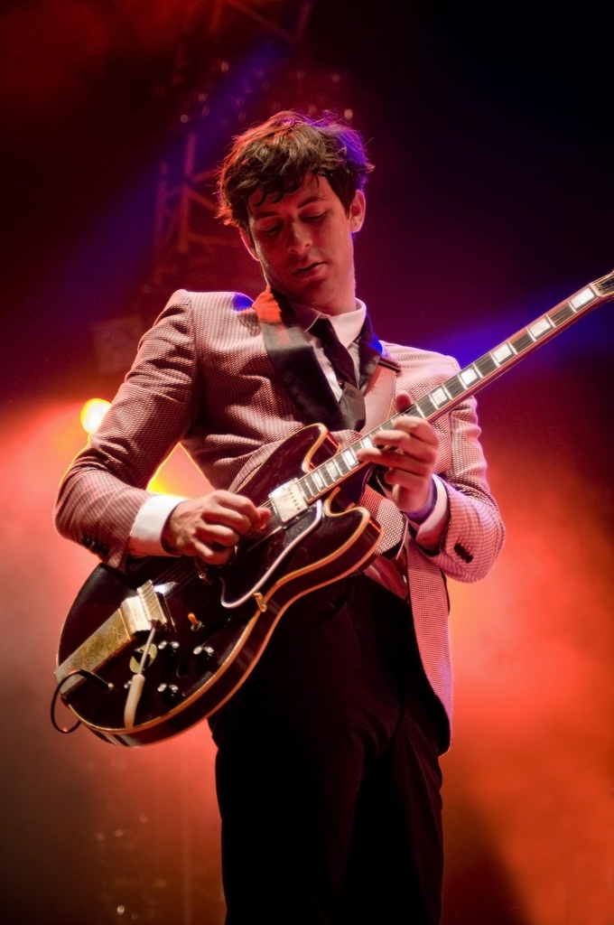 Mark Ronson, at the Northsea Jazzfestival 2008